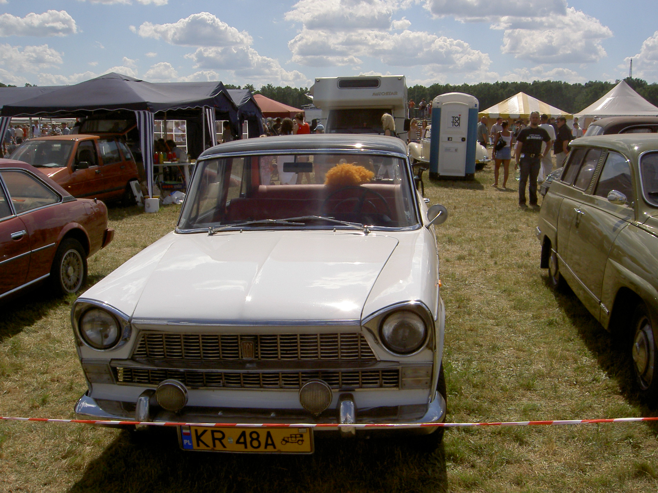 Fiat 1800 seen on Góraszka Air show